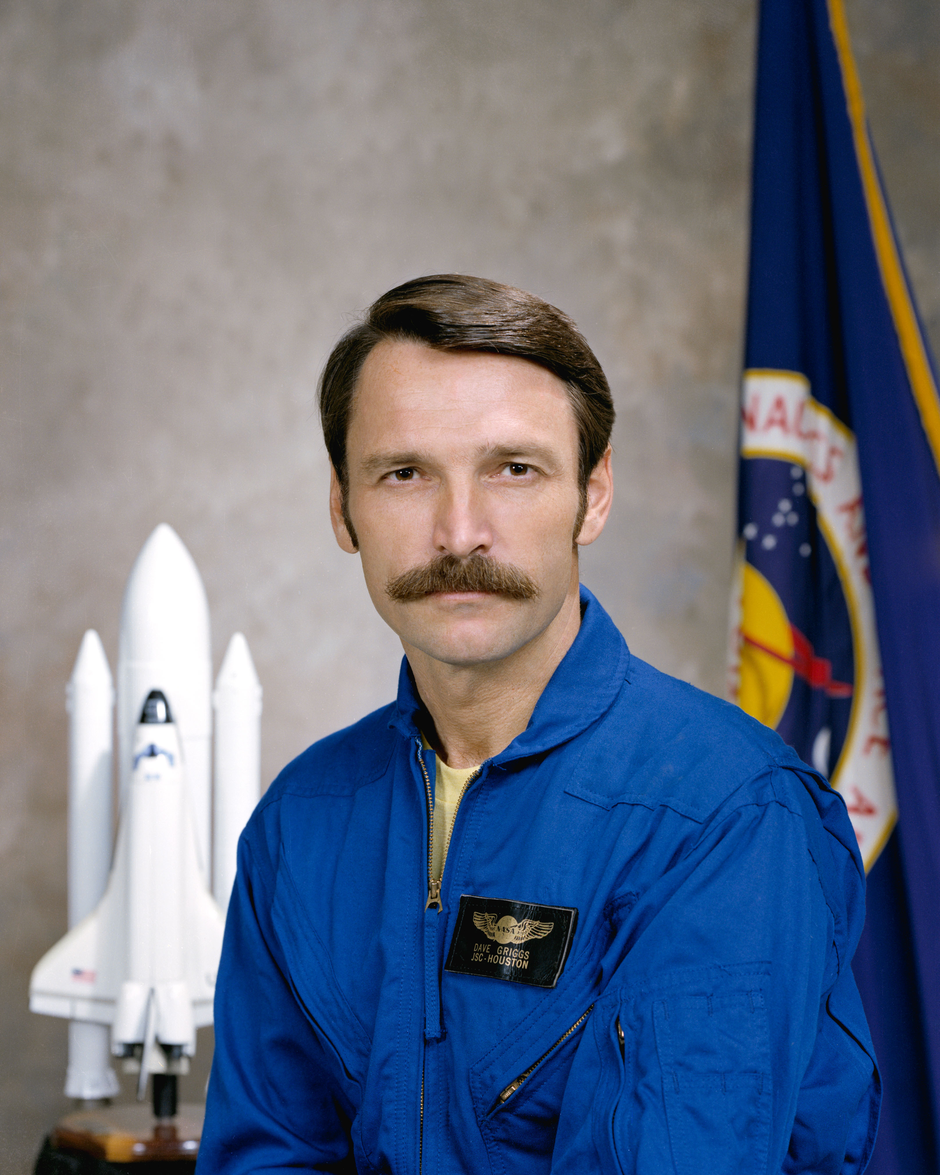 S78-35306 (31 Jan. 1978) --- Astronaut S. David Griggs. (NOTE: He died on June 17, 1989, near Earle, Arkansas, in the crash of a vintage World War II airplane.)